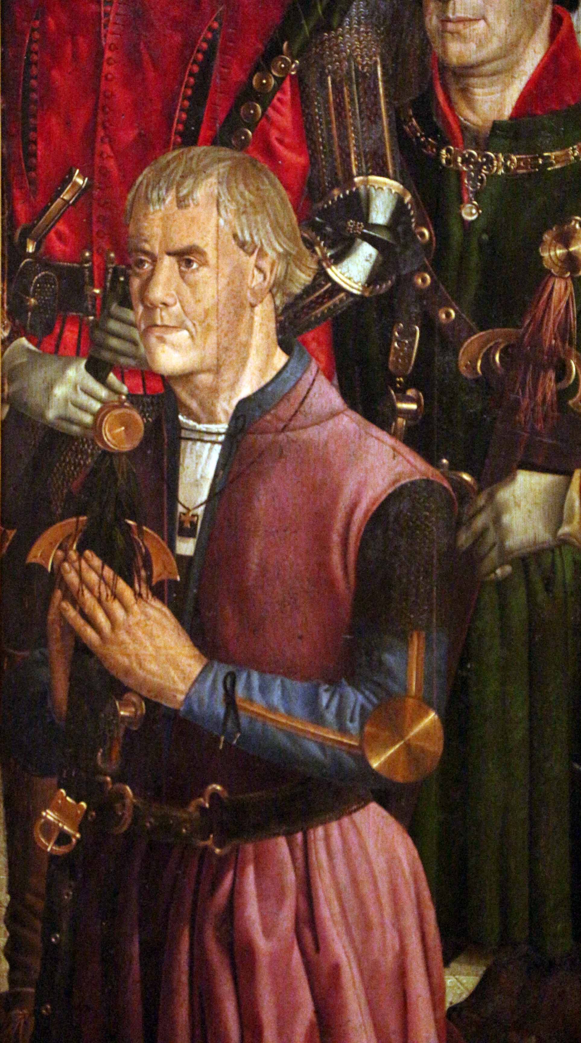 Saint Vincent Panels